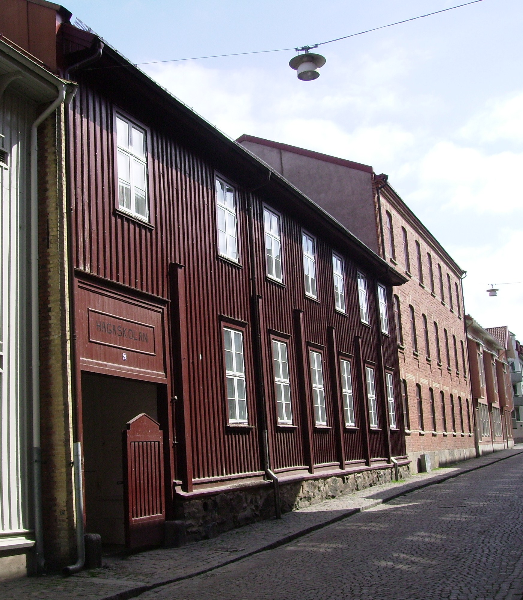 Picture of Hagaskolan in Göteborg, a school building in Göteborg, Sweden.